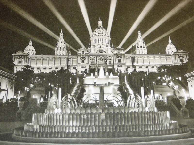 1929 Barcelona International Exposition